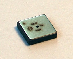 digital barometric pressure sensor BMP085, Bosch Sensortec, used for e.g. altimeters